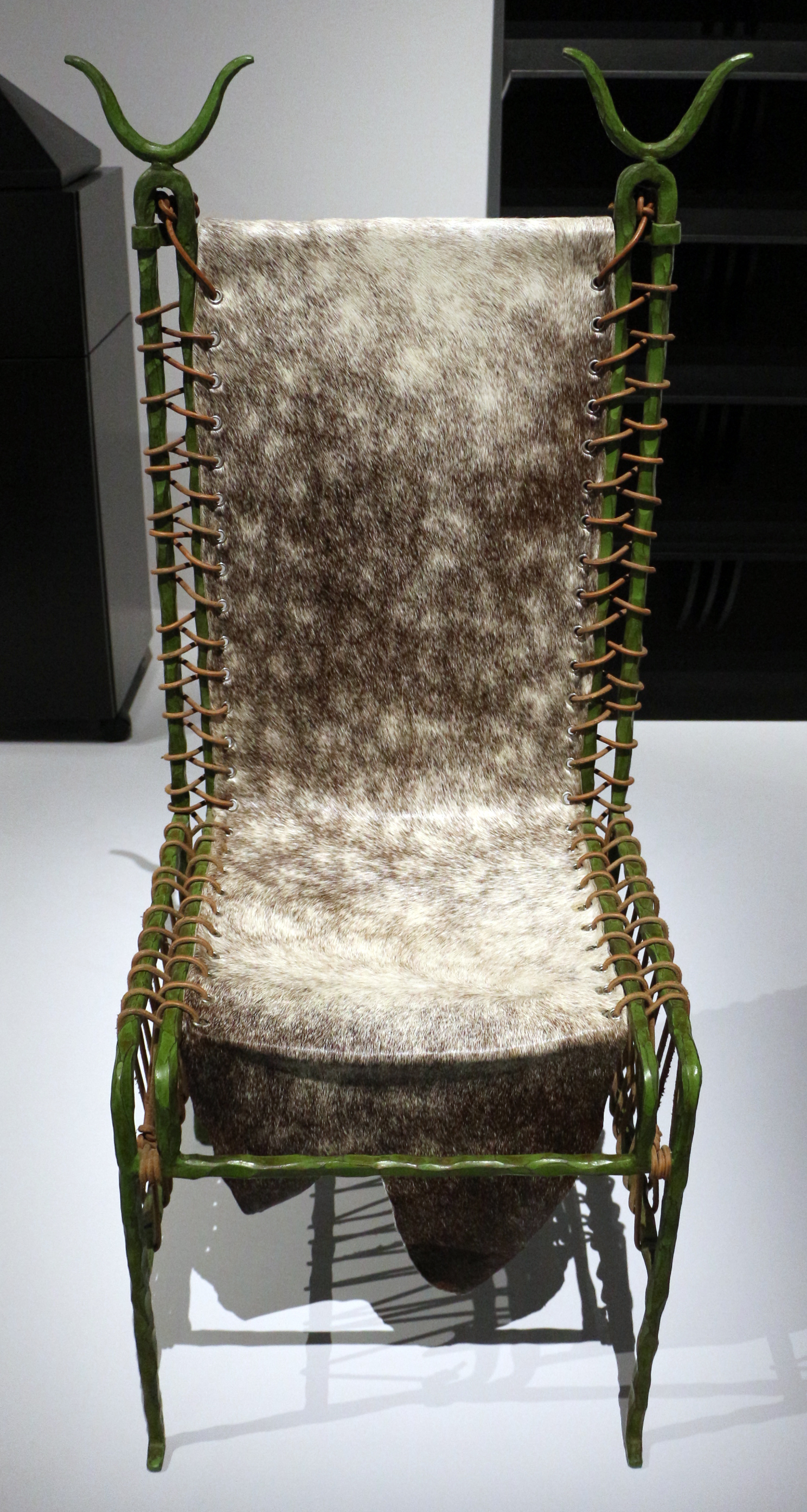 Decorative arts in the Musée national d'art moderne